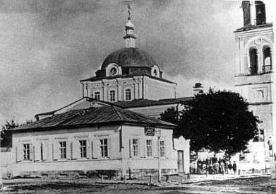 Smolensk church in Oboyan. The beginning of XX century